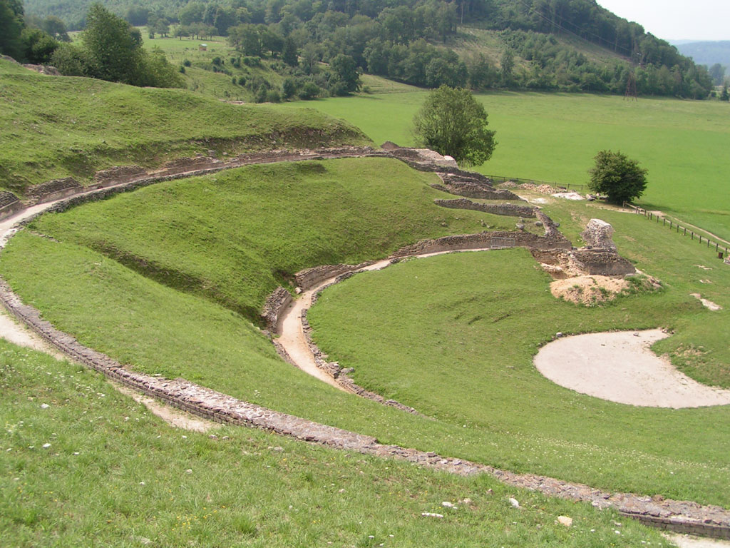 Roman theater of Mandeure, France.